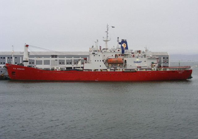 The SAS Aghulhas, moored at the V&A Waterfront in Cape Town.